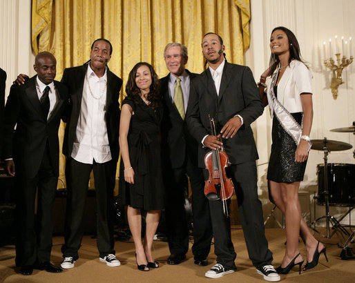 President George W. Bush thanks entertainers, from left to right, KEM, Tourie Escobar, Karina Pasian, Damien Escobar and Miss USA Rachel Smith on stage Friday, June 22, 2007 in the East Room of the White House, for their participation in a celebration of Black Music Month at the White House.